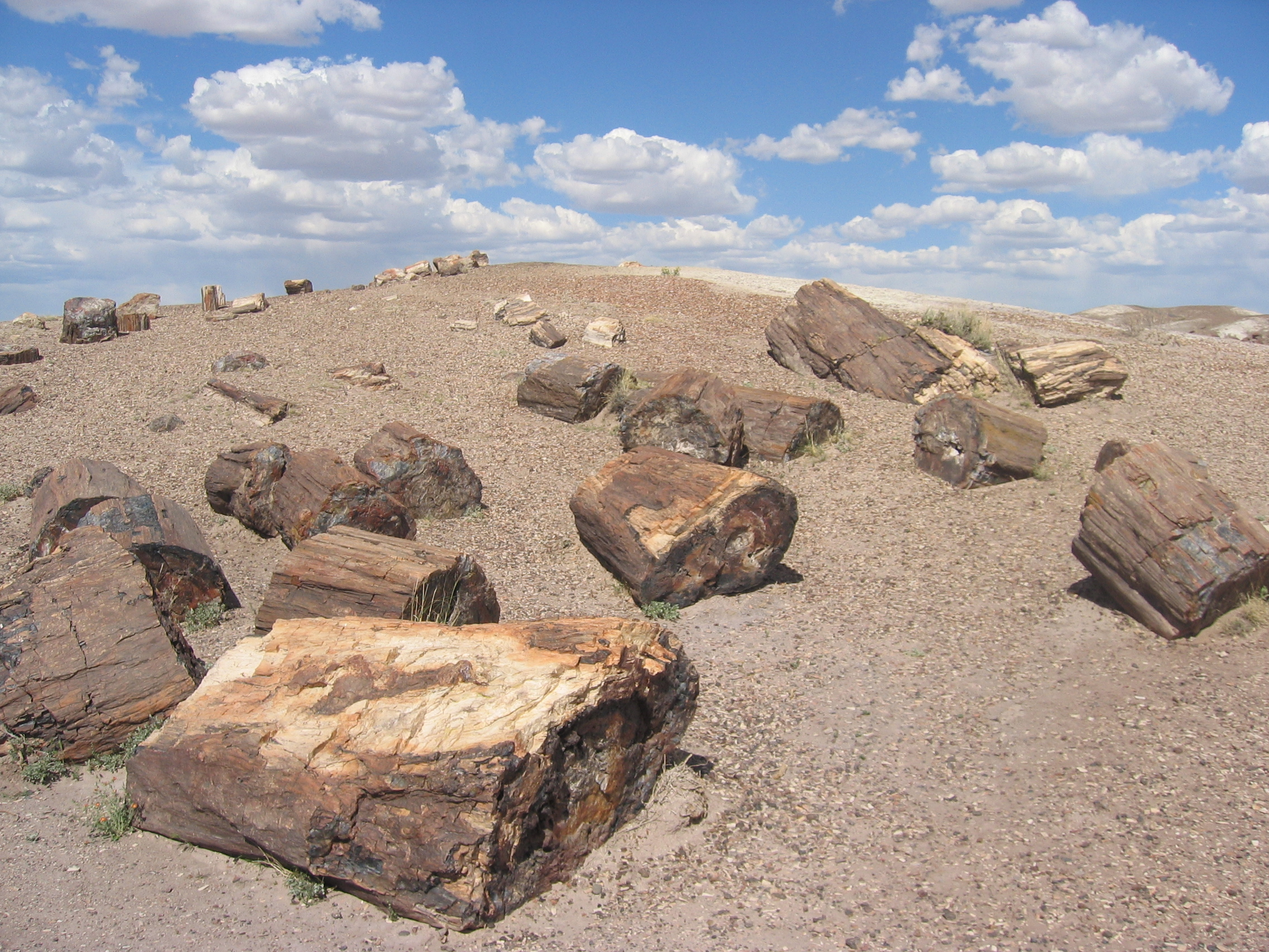 Photo of petrified wood at Petrified Forest National Park, Arizona, USA.